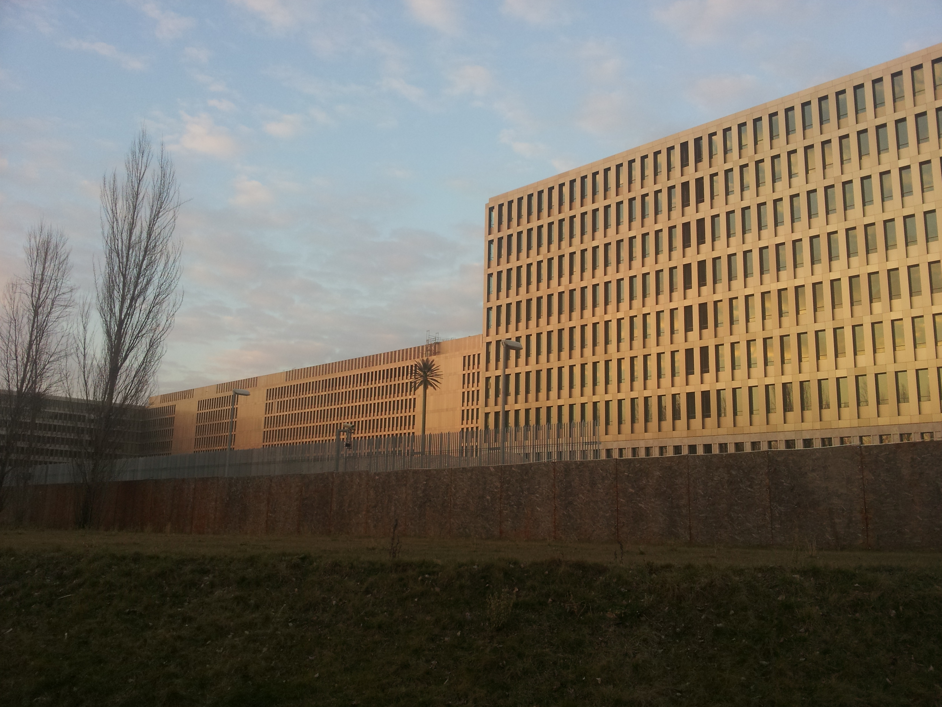 Federal Intelligence Service-building(Bundesnachrichtendienst) in berlin